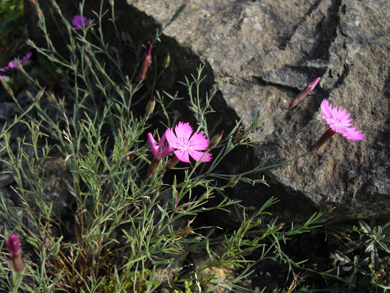 Dianthus nardiformis